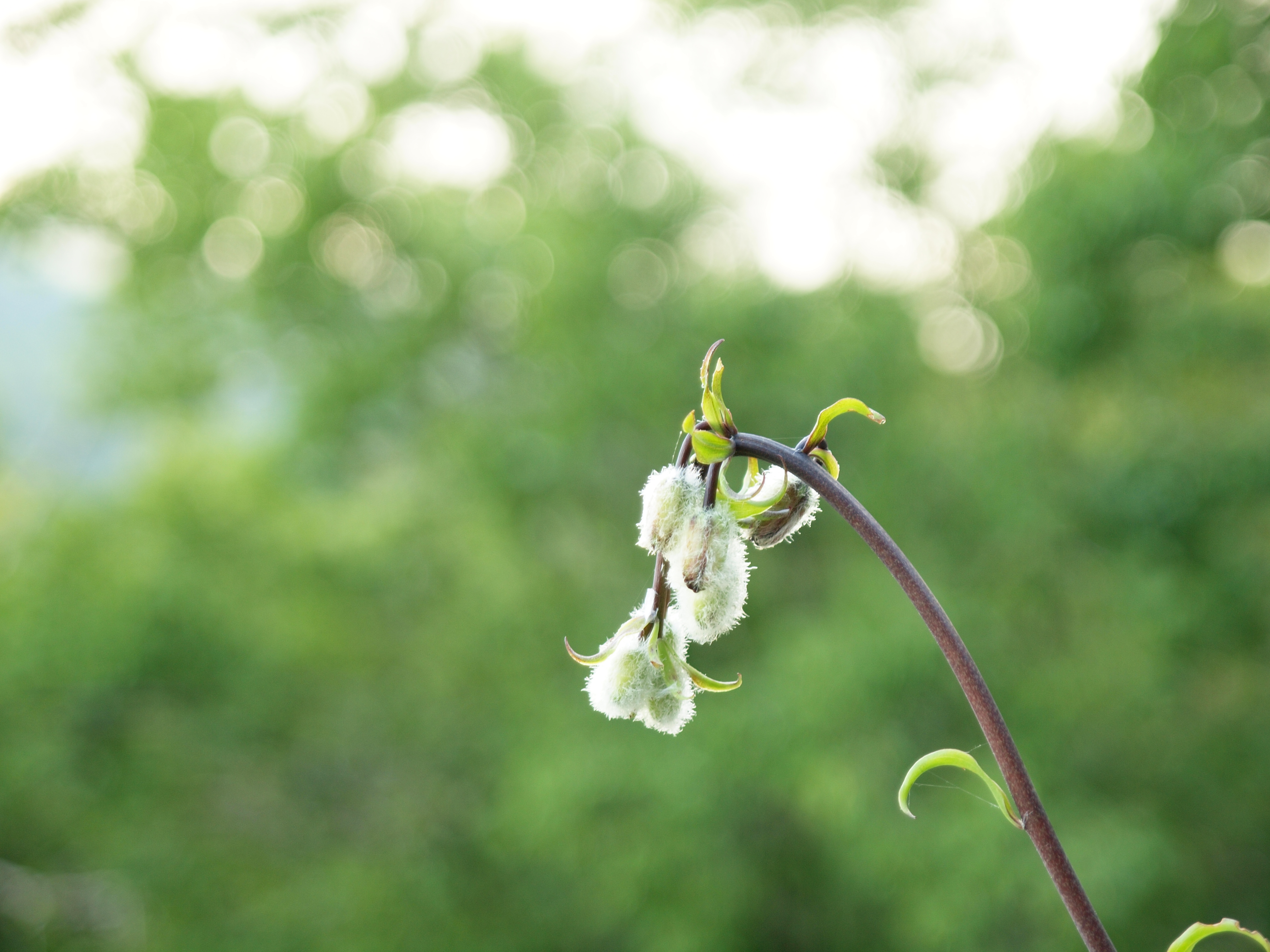 Lilium martagon var cattaniae